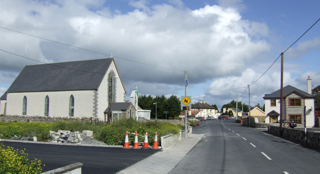 Croagh, Co. Limerick Main street of the village showing the church. By-passed by the N21 Tralee road.